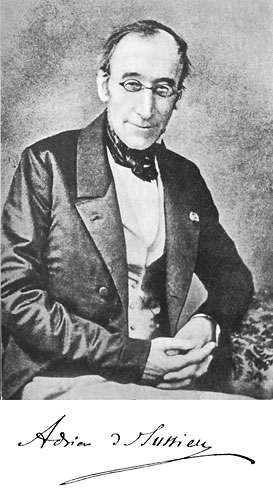 Photograph of Adrien Henri Laurent de Jussieu (1797-1853), French botanist